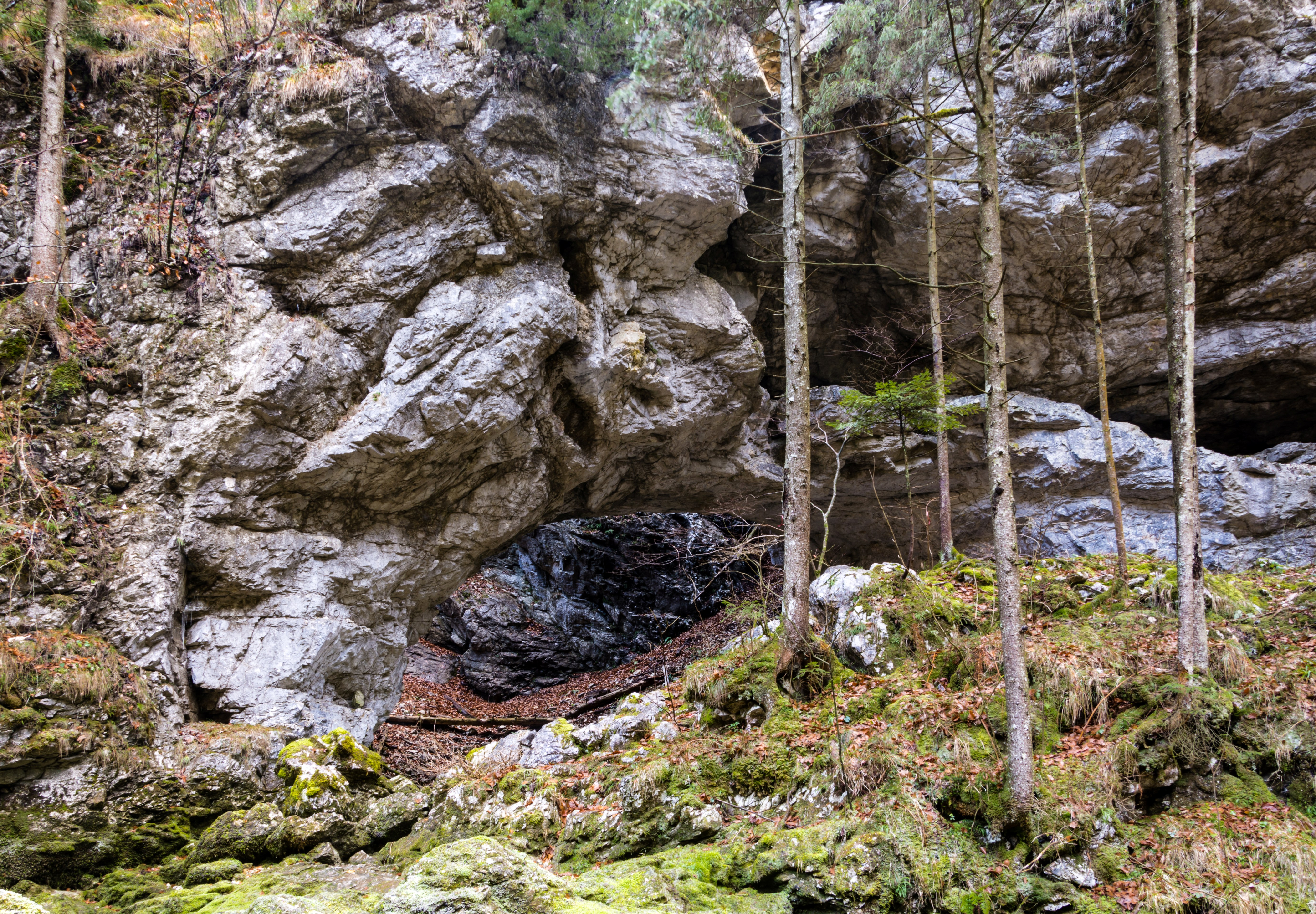 The "Teufelskirche" (Devils Church), which is an stone arch above a karst spring in the Sengsengebirge, is protected as natural monument. This media shows the natural monument in Upper Austria with the ID nd268 (Teufelskirche im vorderen Rettenbachtal).